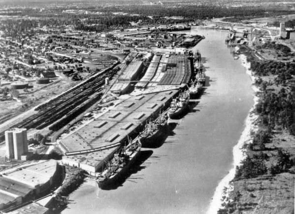 Aerial view of body of water